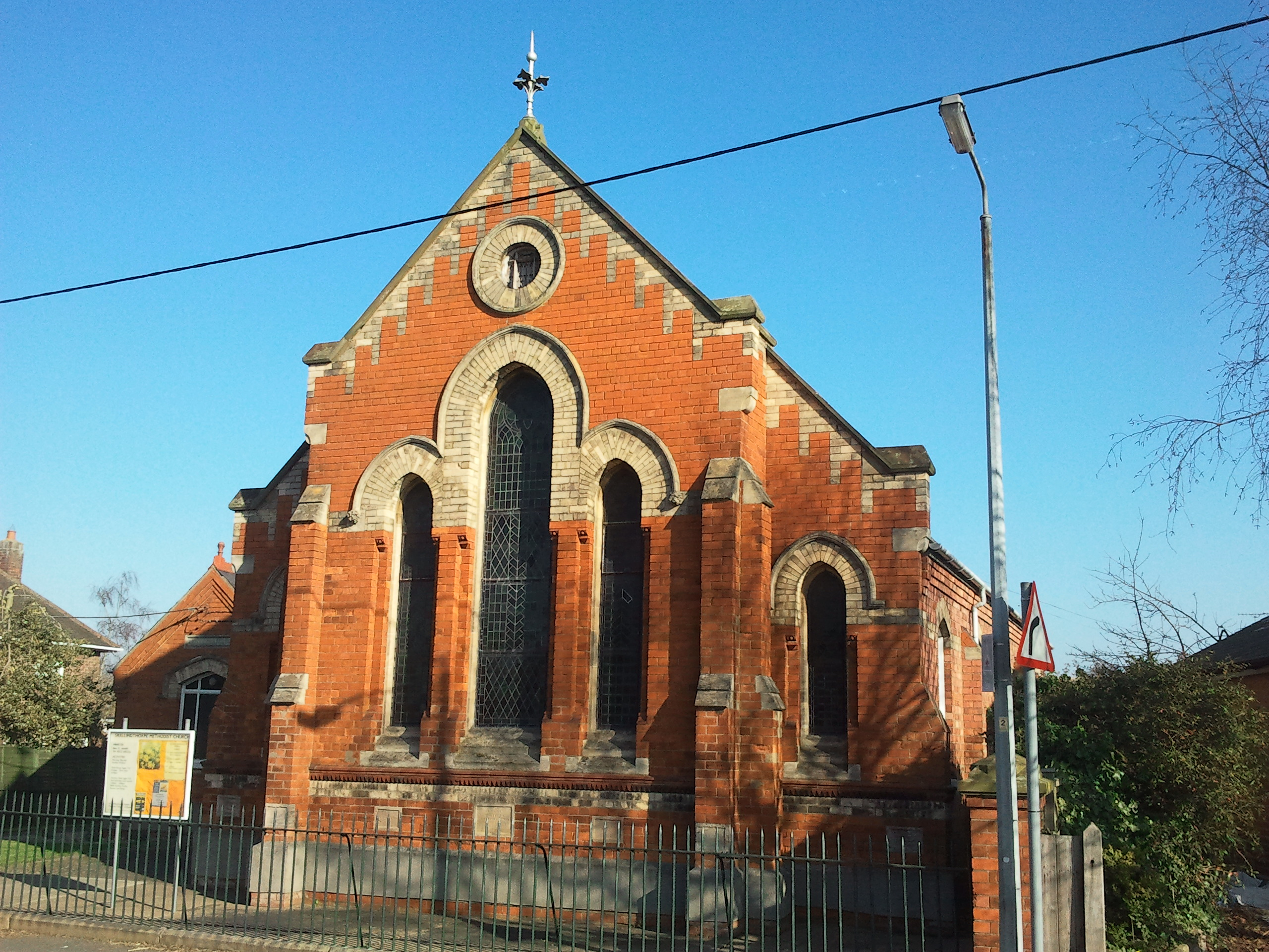 This file is a photo of the Methodist church in Skellingthorpe, UK.